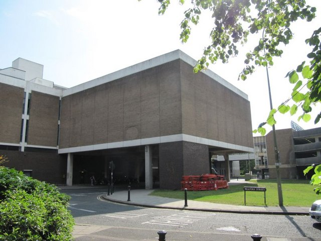 Westgate across the road Part of the back of Westgate shopping centre Oxford.